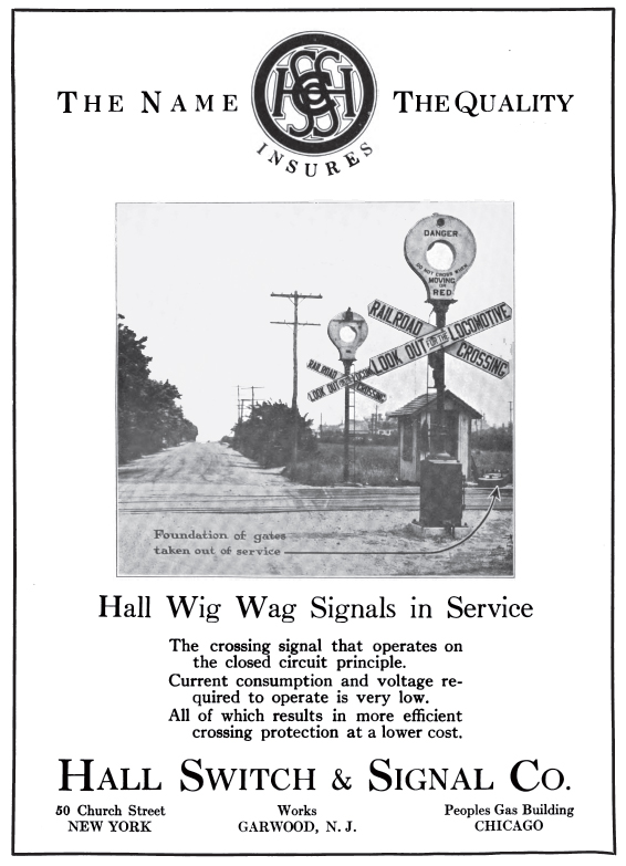 Advertisement for Hall Switch and Signal Company, USA. The ad features a photo of a "wigwag" signal installed at a railroad grade crossing (level crossing).